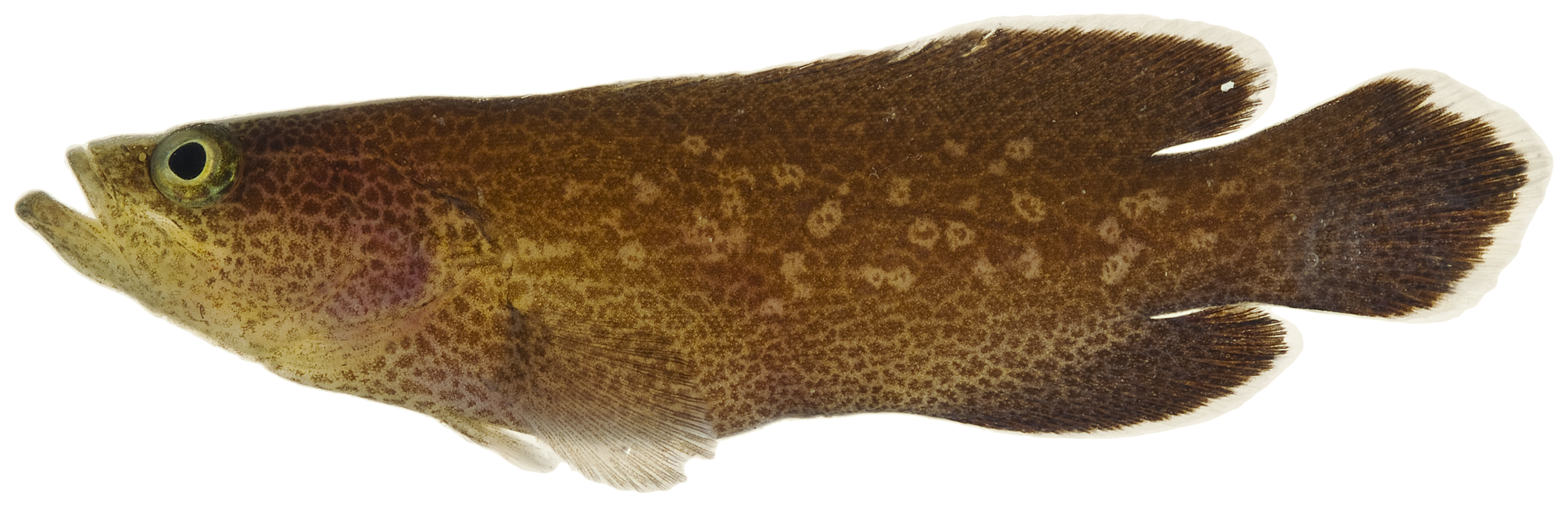 Rypticus saponaceus (Bloch & Schneider, 1801)—greater soapfish, 44.1 mm SL. Photo by JT Williams.